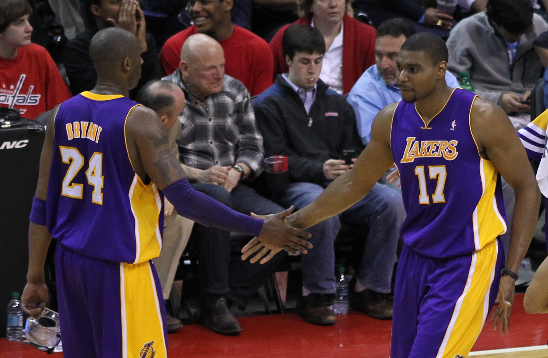 Kobe Bryant #24 and Andrew Bynum #17 of the Los Angeles Lakers in a game against the Washington Wizards at the Verizon Center on March 7, 2012 in Washington, DC.